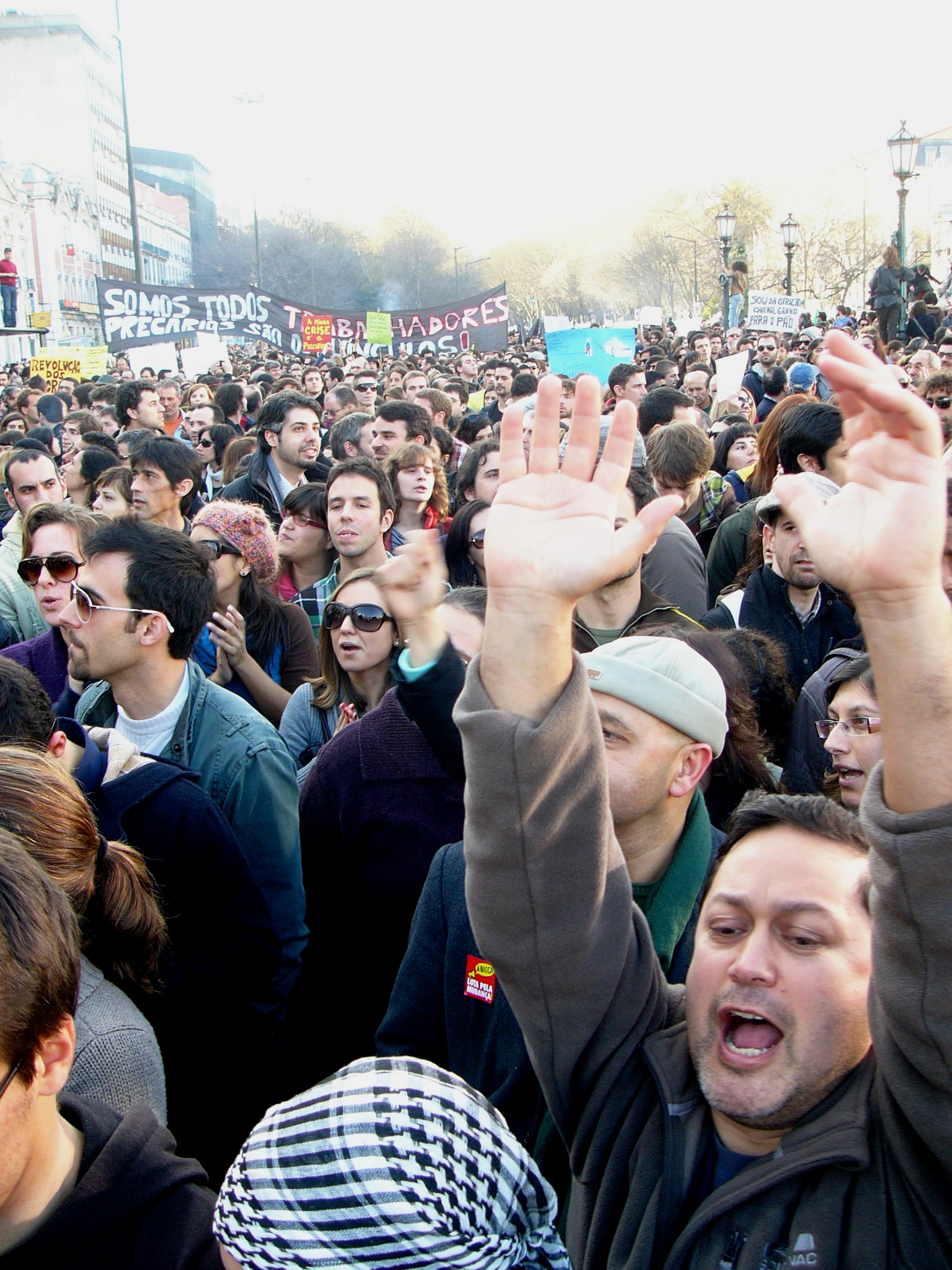 Protesters during the Geração à rasca rally, in 12 March 2011, at Avenida da Liberdade, Lisboa, Portugal.